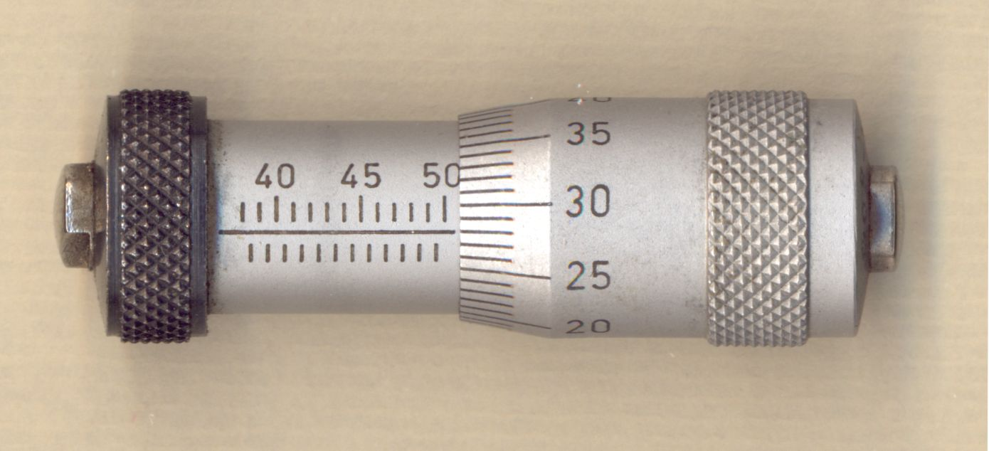 inside micrometer 40-50 mm